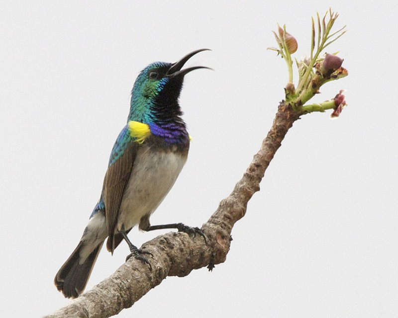 A displaying, male White-bellied Sunbird in the Kwa Madwala Game Park, Mpumalanga, South Africa, on 10 October 2009. The yellow pectoral tufts are only fluffed out during courtship display and calling. Xitsonga: Nwapyopyamhanya